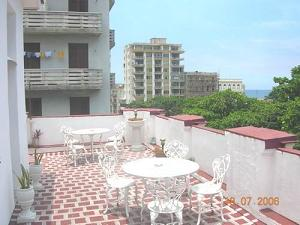 Terrace in Casa Particular in Havana, Cuba